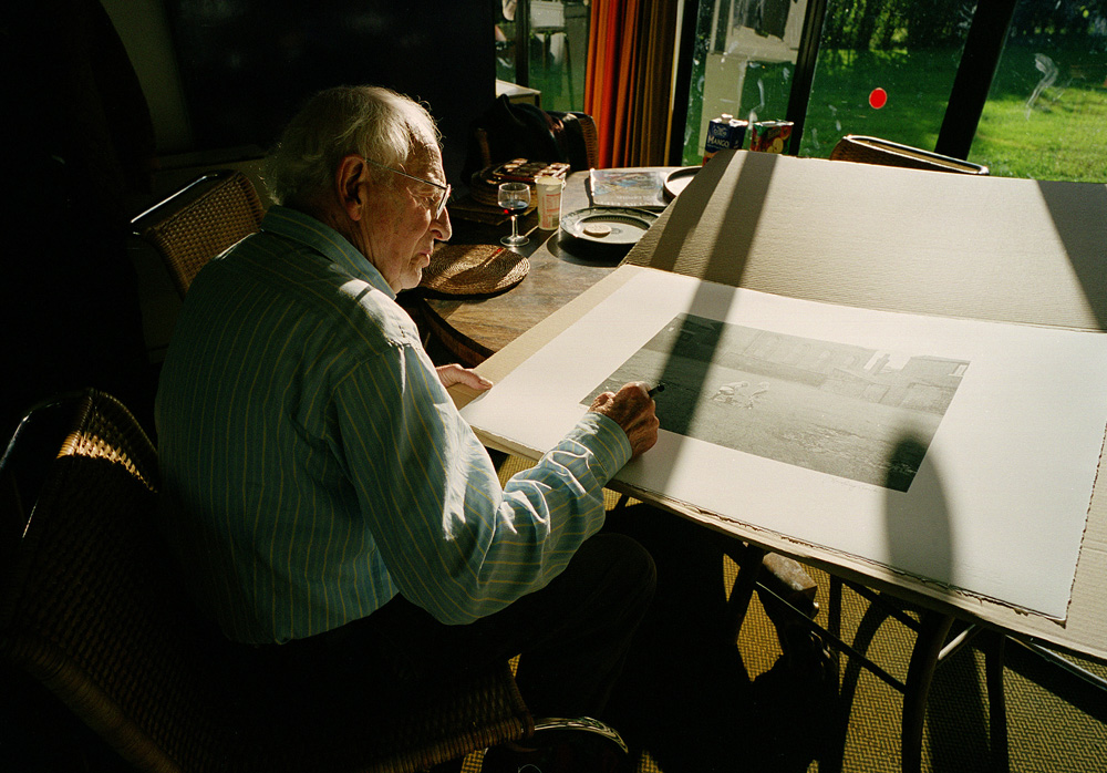 Artist and photographer Humphrey Spender at his home studio in Maldon, Essex 1999